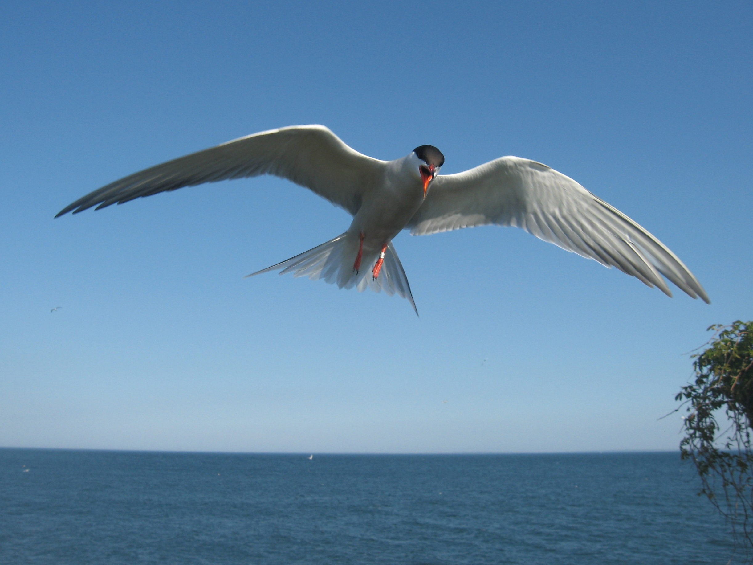 An enraged hovering parent Common Turn that is attempting to repel human intruders near its nest by flapping and screaming loudly. Photographed at Great Gull Island, New York, a small island in the Long Island Sound, USA.